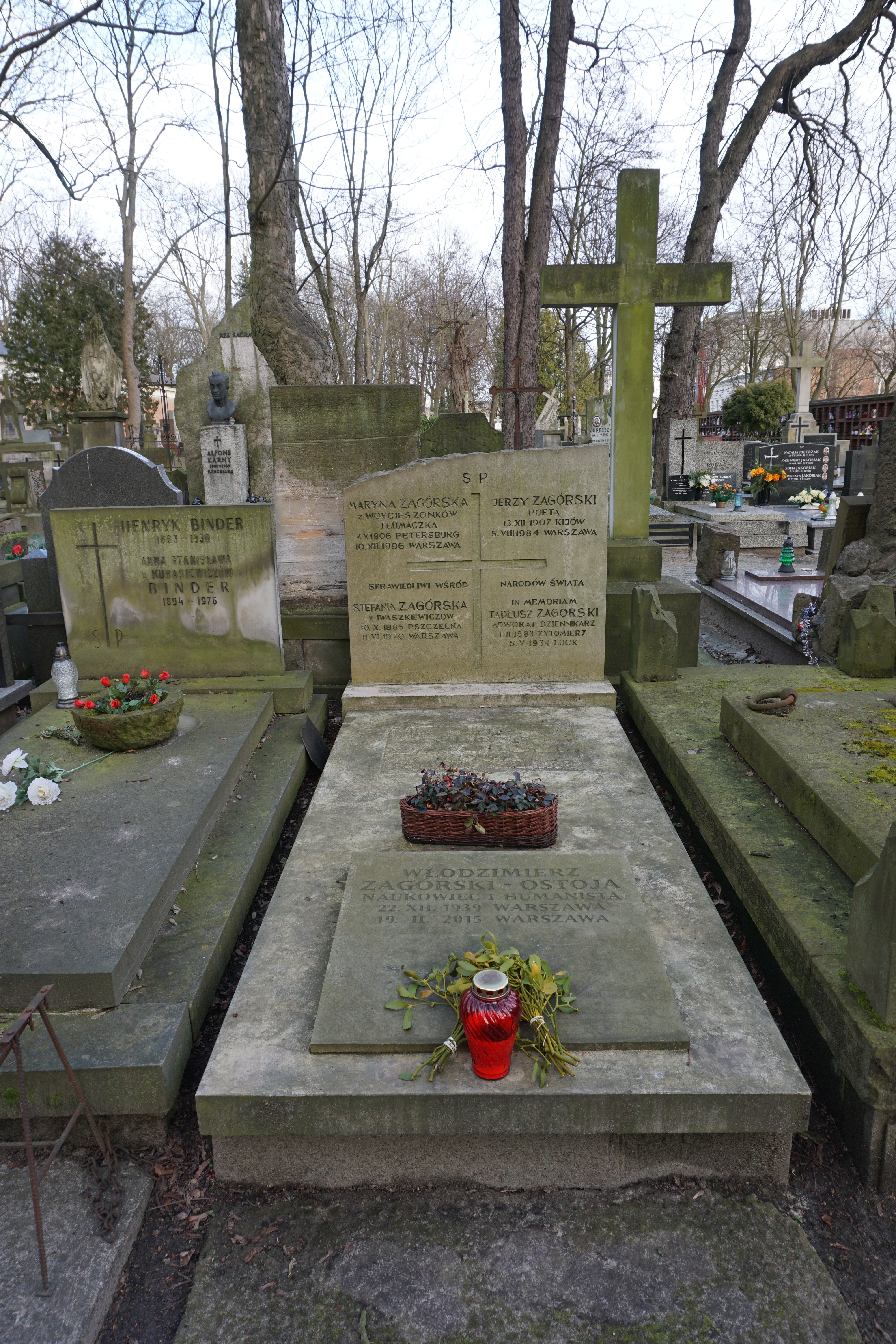 The grave of Maryna Zagórska at the Powązki Cemetery (section 169, row 2, grave 19)